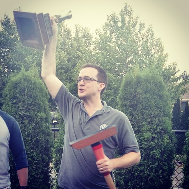 Daryl Wile accepts the Wile Cup for winning the croquet tournament.